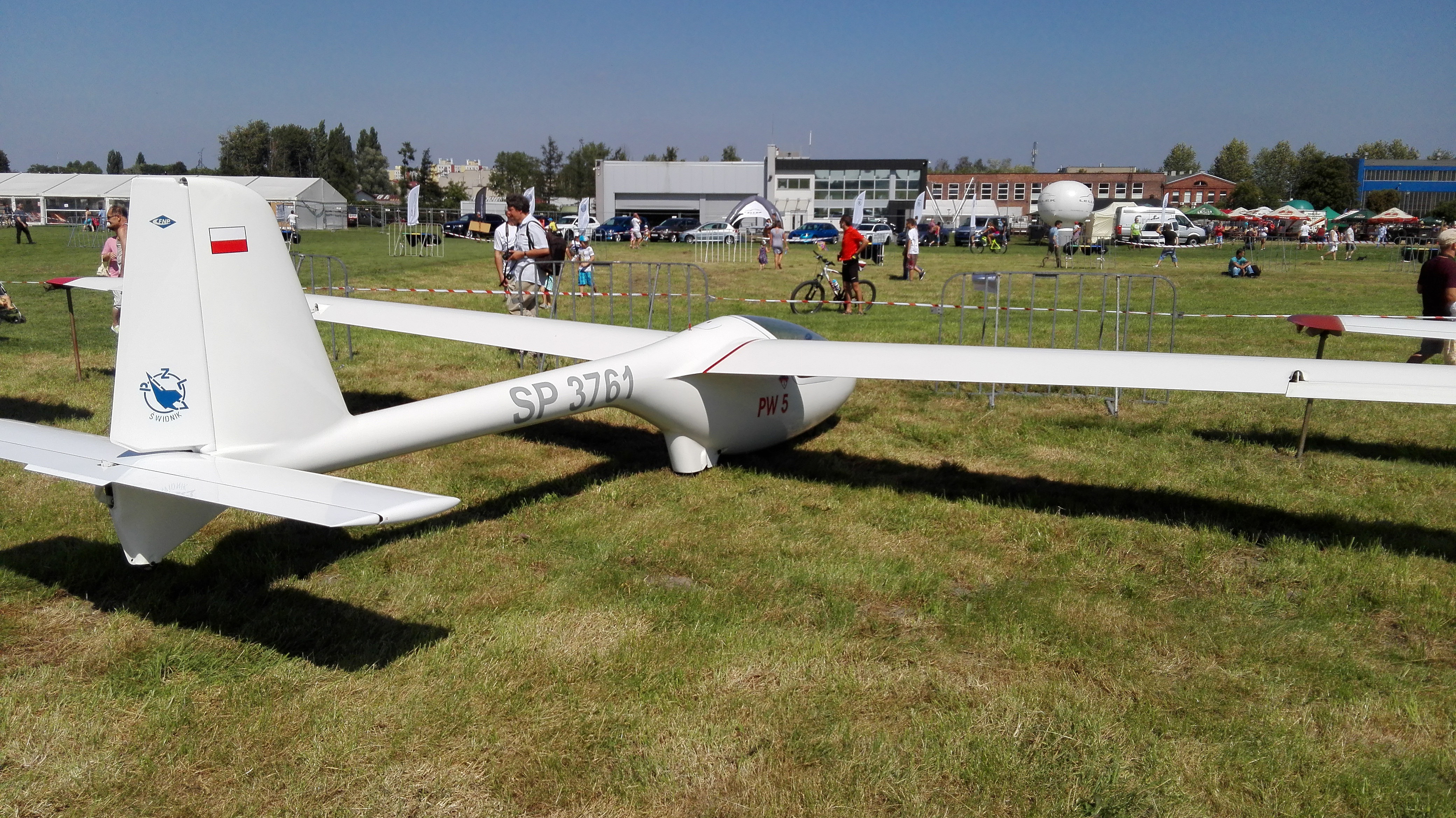 PW-5